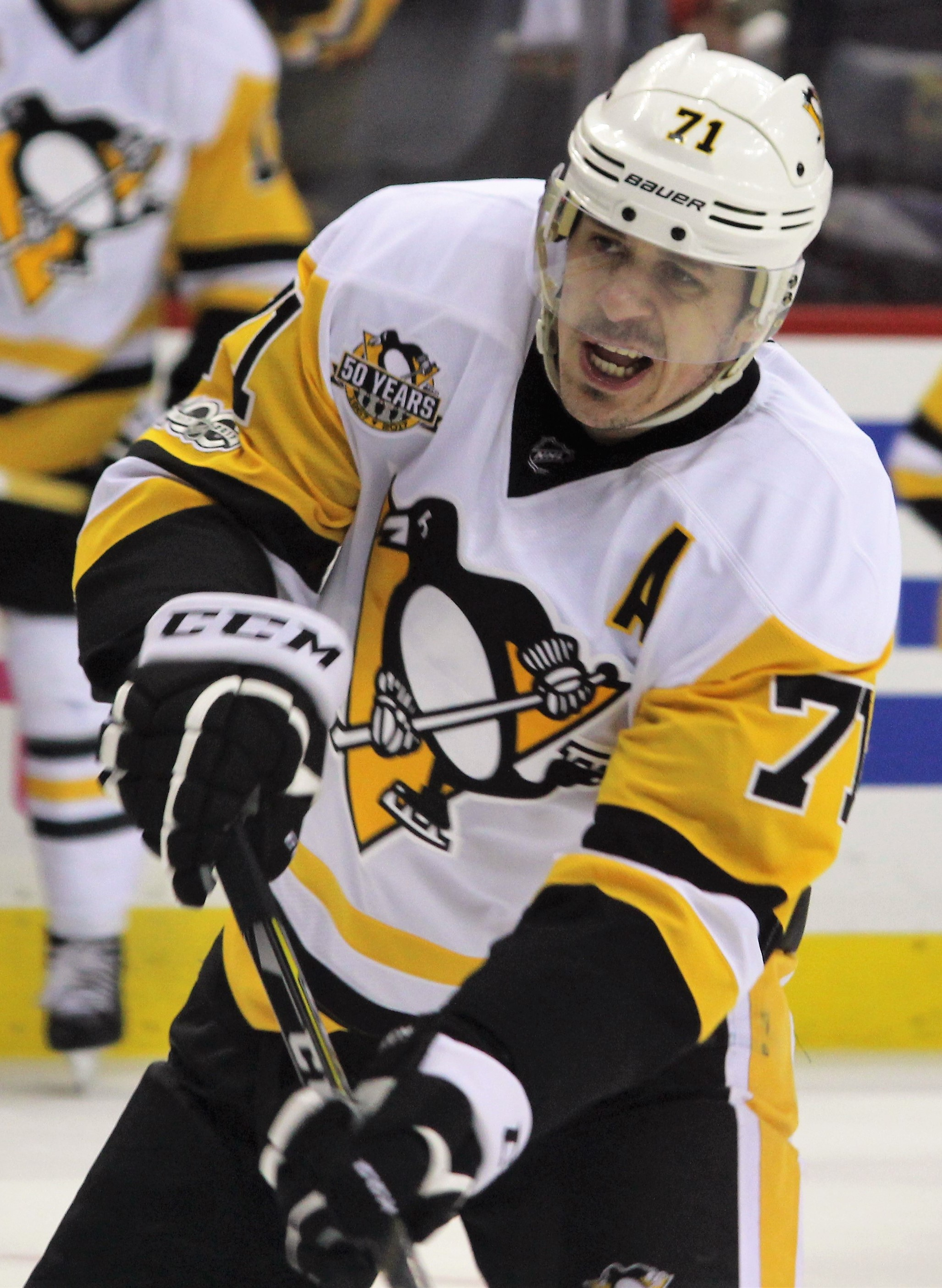 Pittsburgh Penguins forward Evgeni Malkin warms up prior to a second round playoff game against the Washington Capitals, April 27, 2017, at Verizon Center in Washington, D.C.